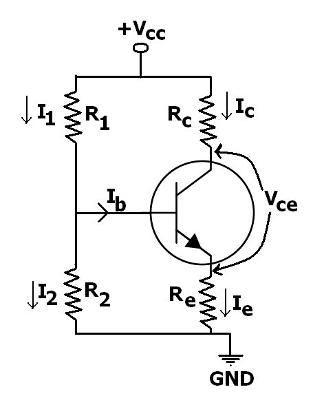 Voltage divider bias circuit.